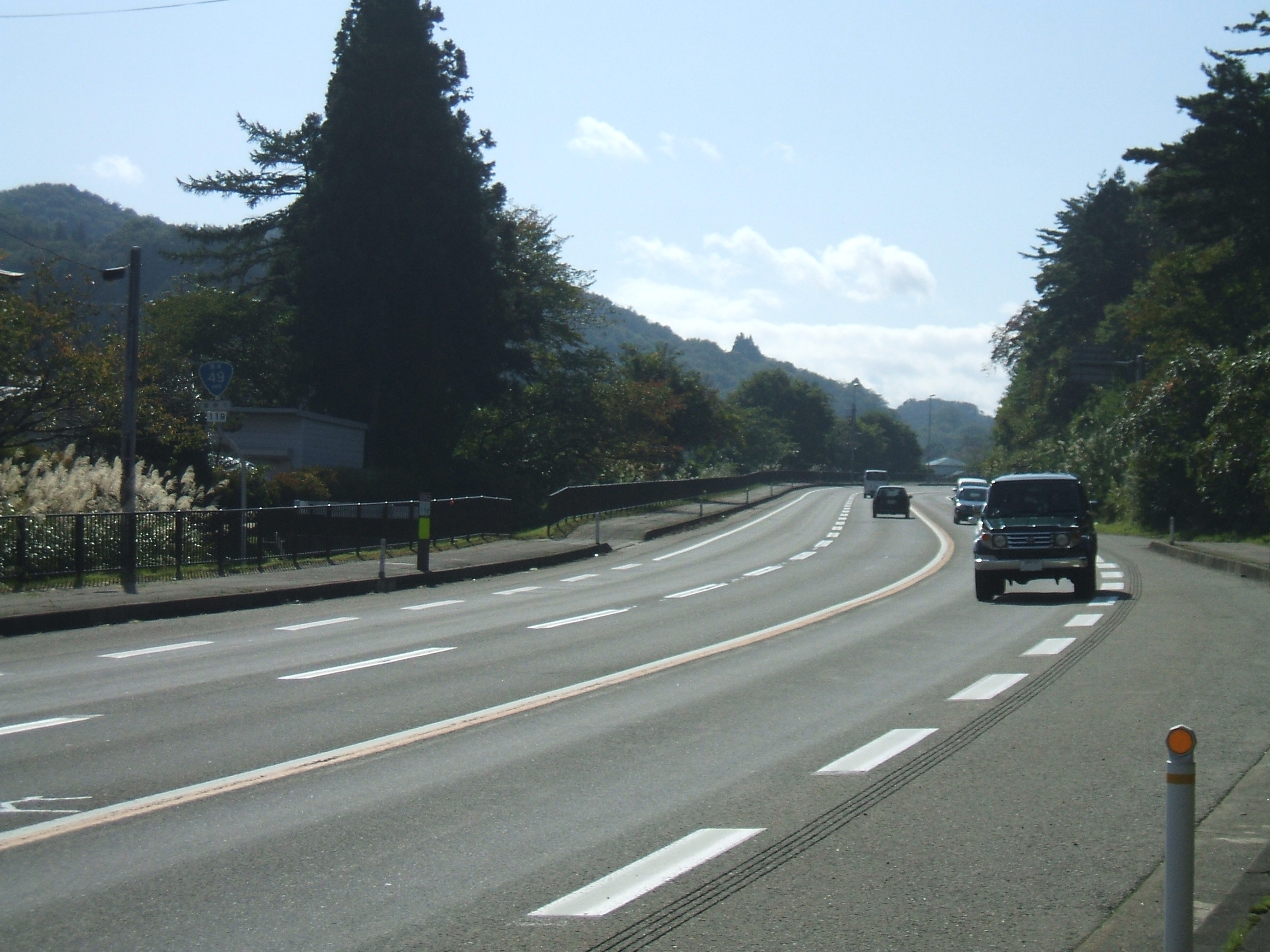 A landscape of Japanese National Road "Route 49" at Hatta, Kawahigashi-town, Aizuwakamatsu, Fukushima.